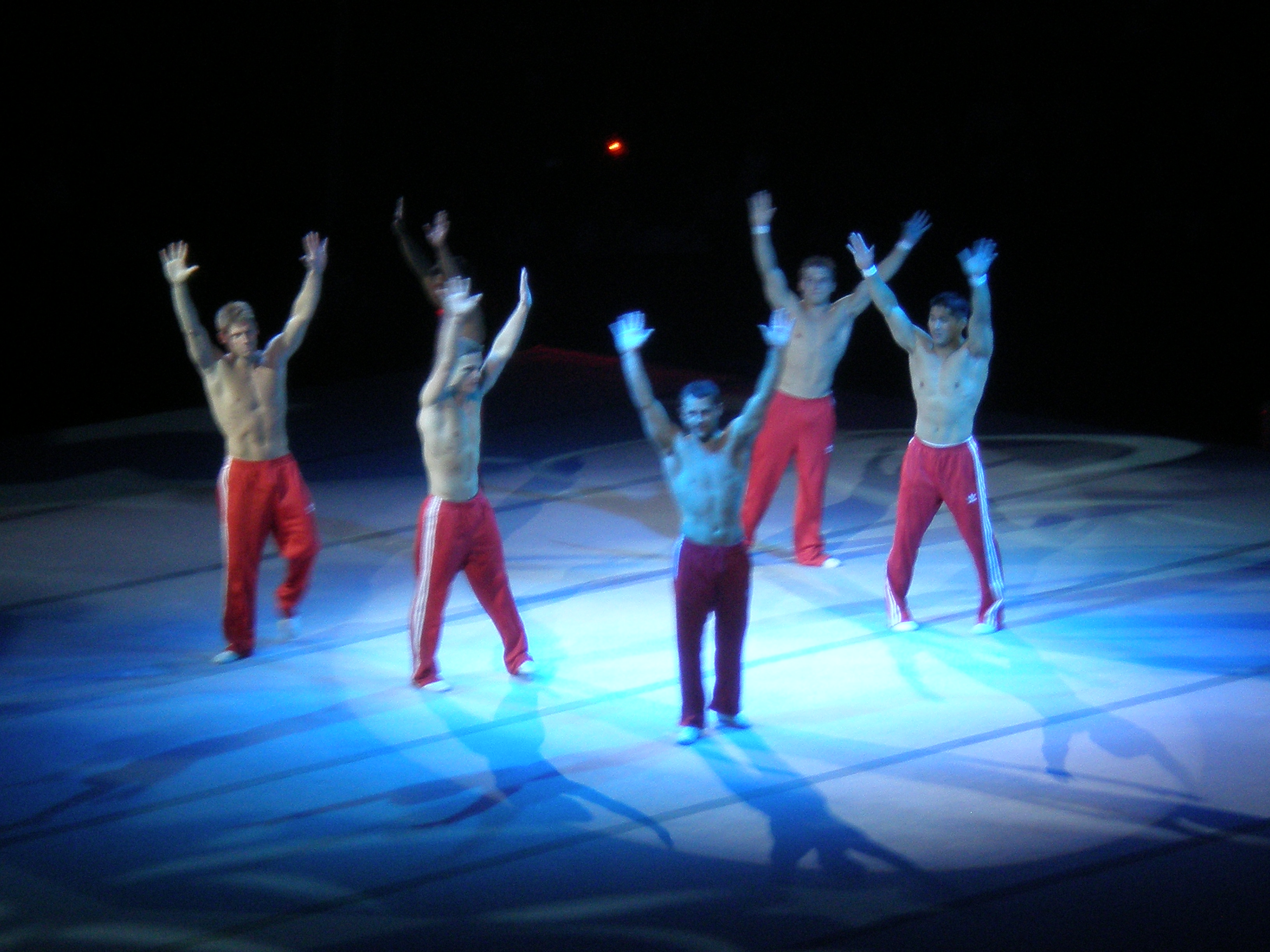 The 2008 US Men's Olympic Team performing at the Tour of Gymnastics Superstars at HP Pavilion in San Jose, California.